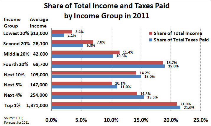 Share of total income and taxes paid by income group in 2011. The total taxes include federal, state and local taxes.